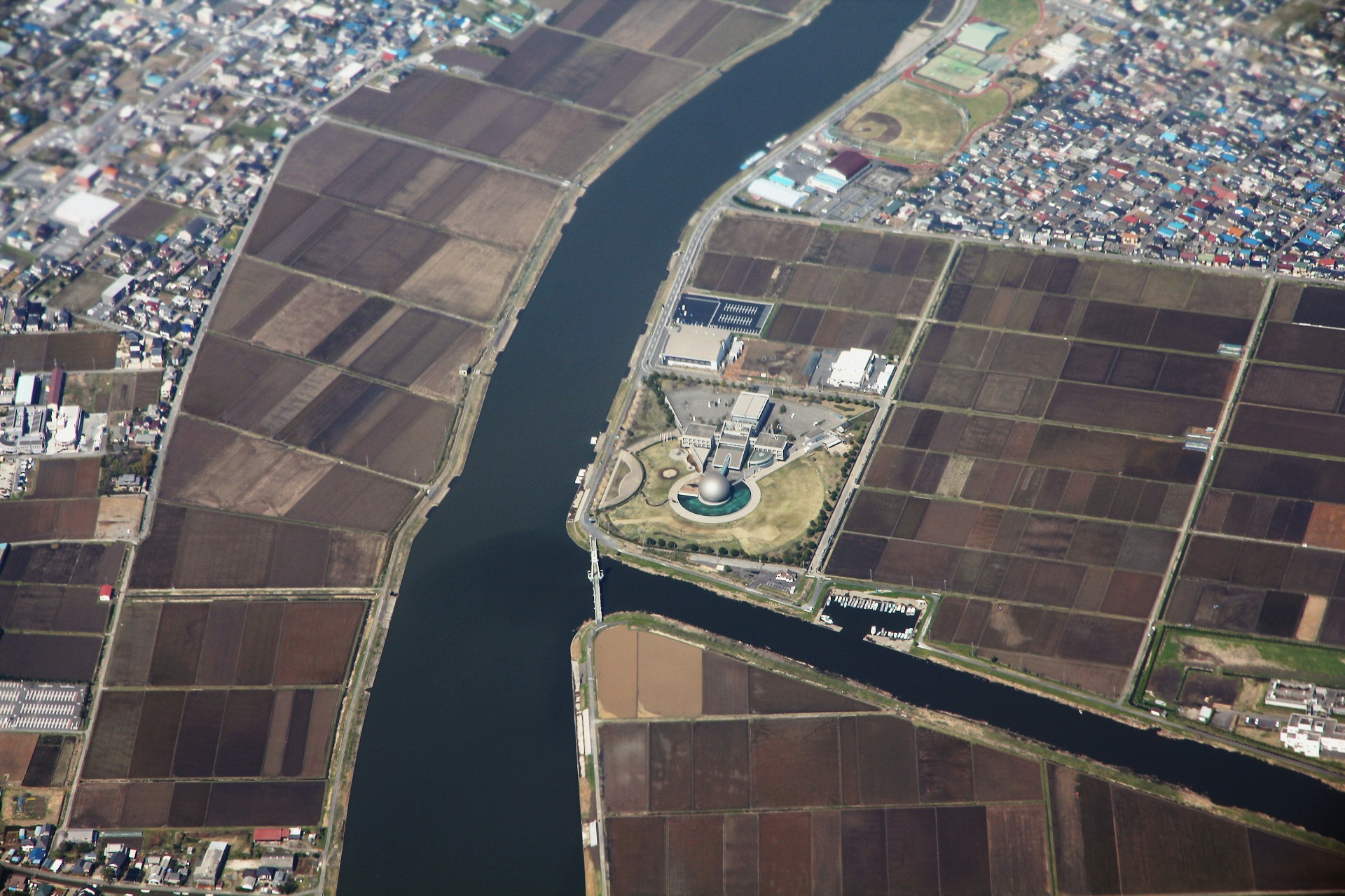 Aerial view of agricultural fields along Tone River in Omigawa, Katori, Chiba, Japan.